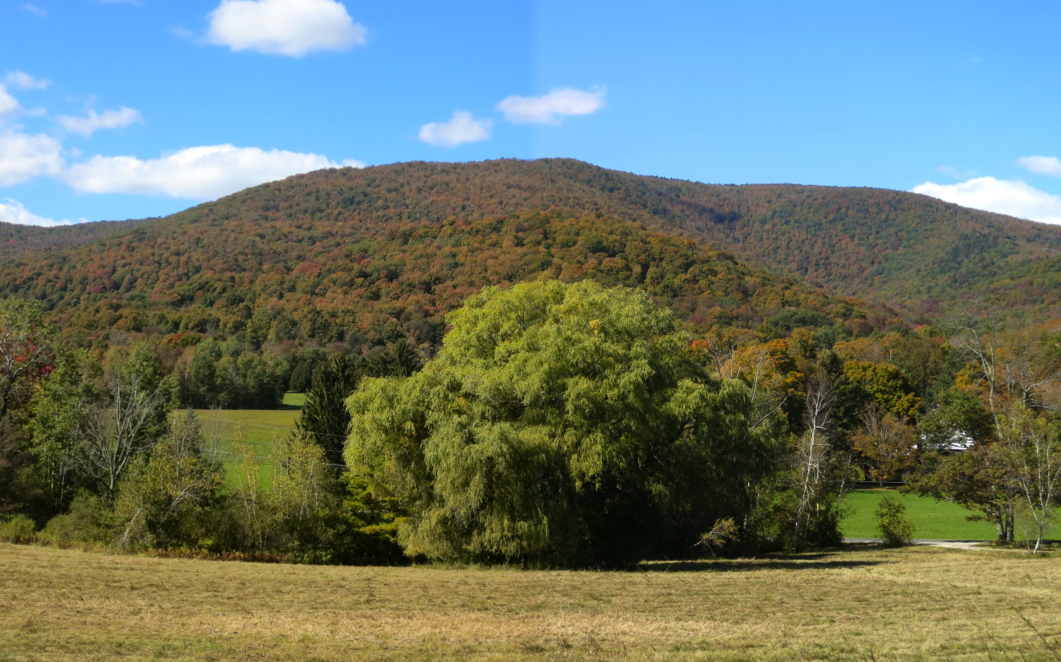 As viewed from South Williamstown (looking west)